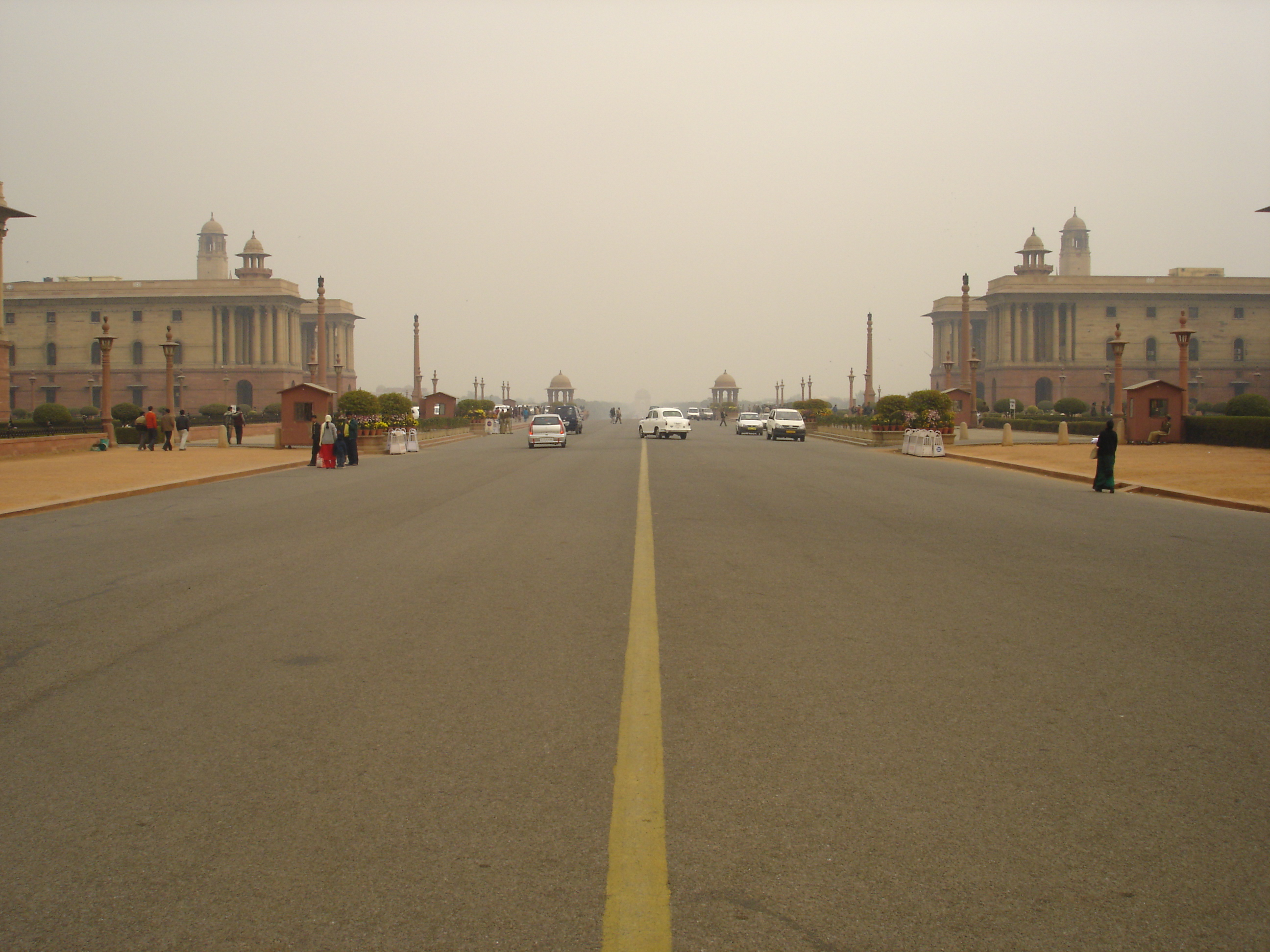 The Rajpath